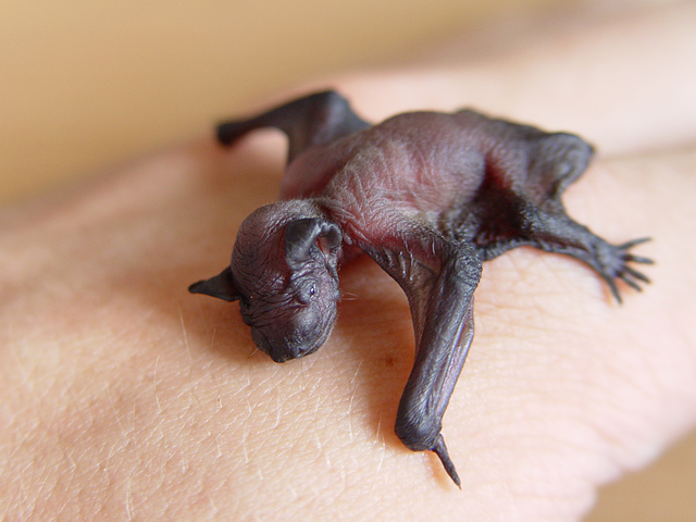 Newborn Common Pipistrelle (Pipistrellus pipistrellus, a foundling) sitting on the back of a hand. Size: about 3 cm.